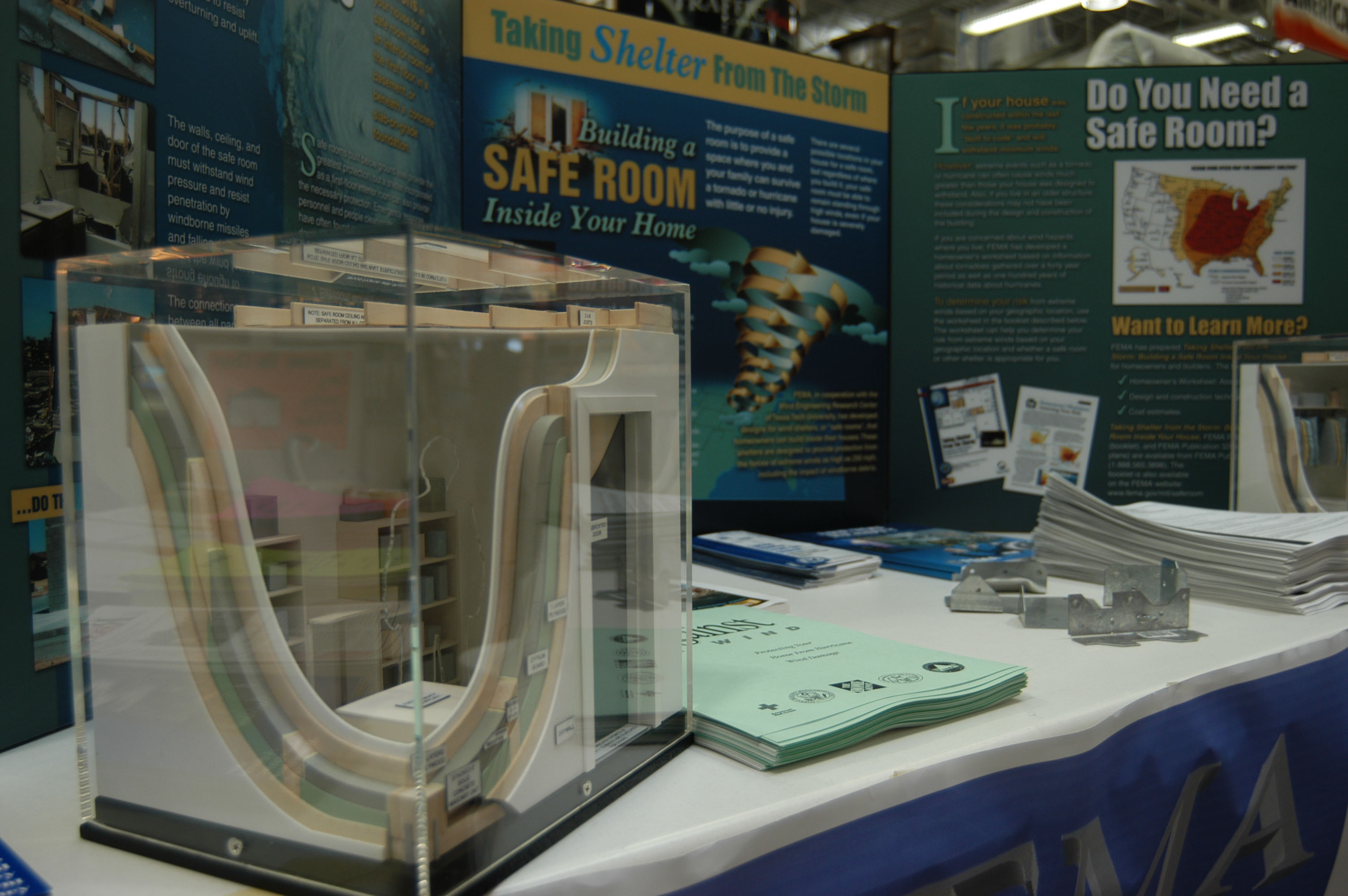 Jackson, TN, June 2, 2003 -- FEMA Mitigation provides information on building safe rooms inside homes for areas of the country prone to high winds. A mockup of a safe room is shown in the foreground. Photo by Mark Wolfe/FEMA News Photo